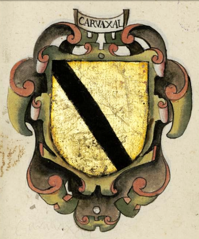 Coat of arms of Carvajal, Caravajal, Carabajal (Spain)